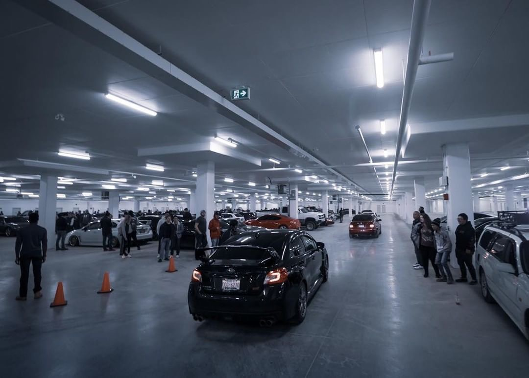 Canadian indoor car meet. Horizon Saturdays hosted by Justice Road Rallies